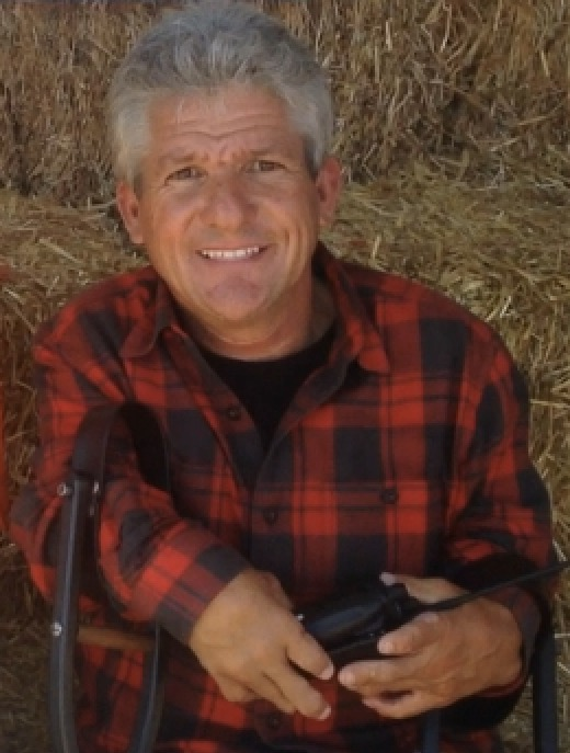 Matt and Zach Roloff of Little People, Big World.